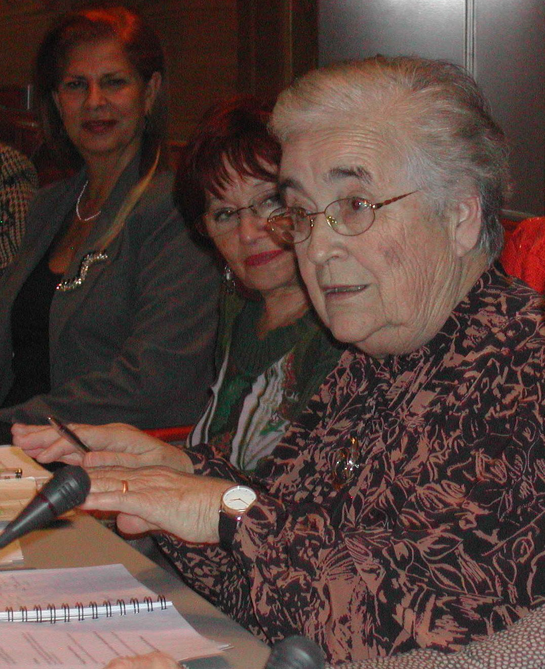 27 years later - Meeting in the Senate of senators and deputies of the Constituent Legislature (1977-1979) 27 years after Madrid in January 2006 Close Marta Mata with Julia Sevilla lawyer and Senator Carmen Alborch